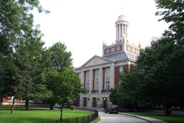 Front entrance to Forest Hills High School